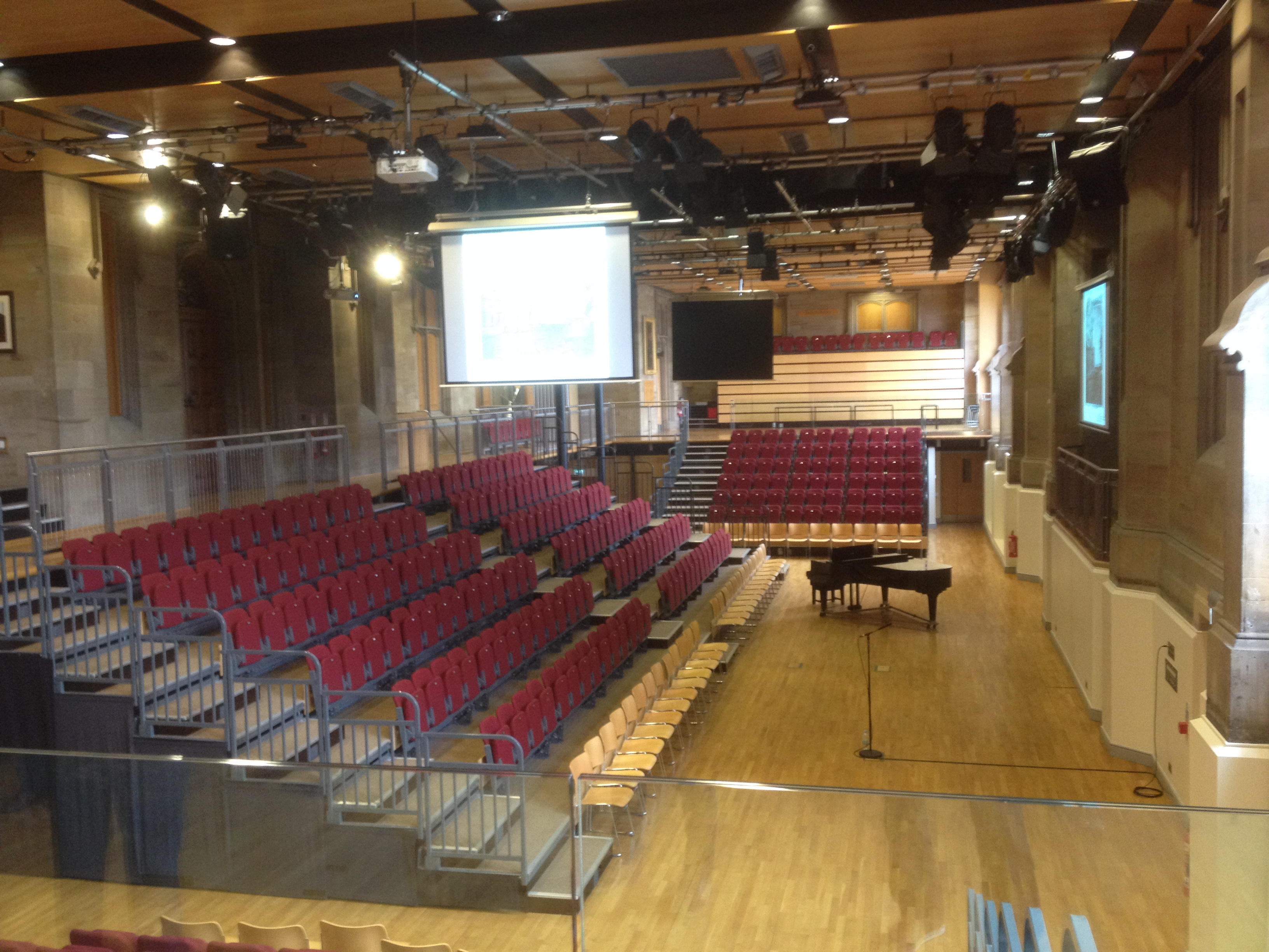 Tom Fleming Centre for Performing Arts, Stewart's Melville College, Edinburgh